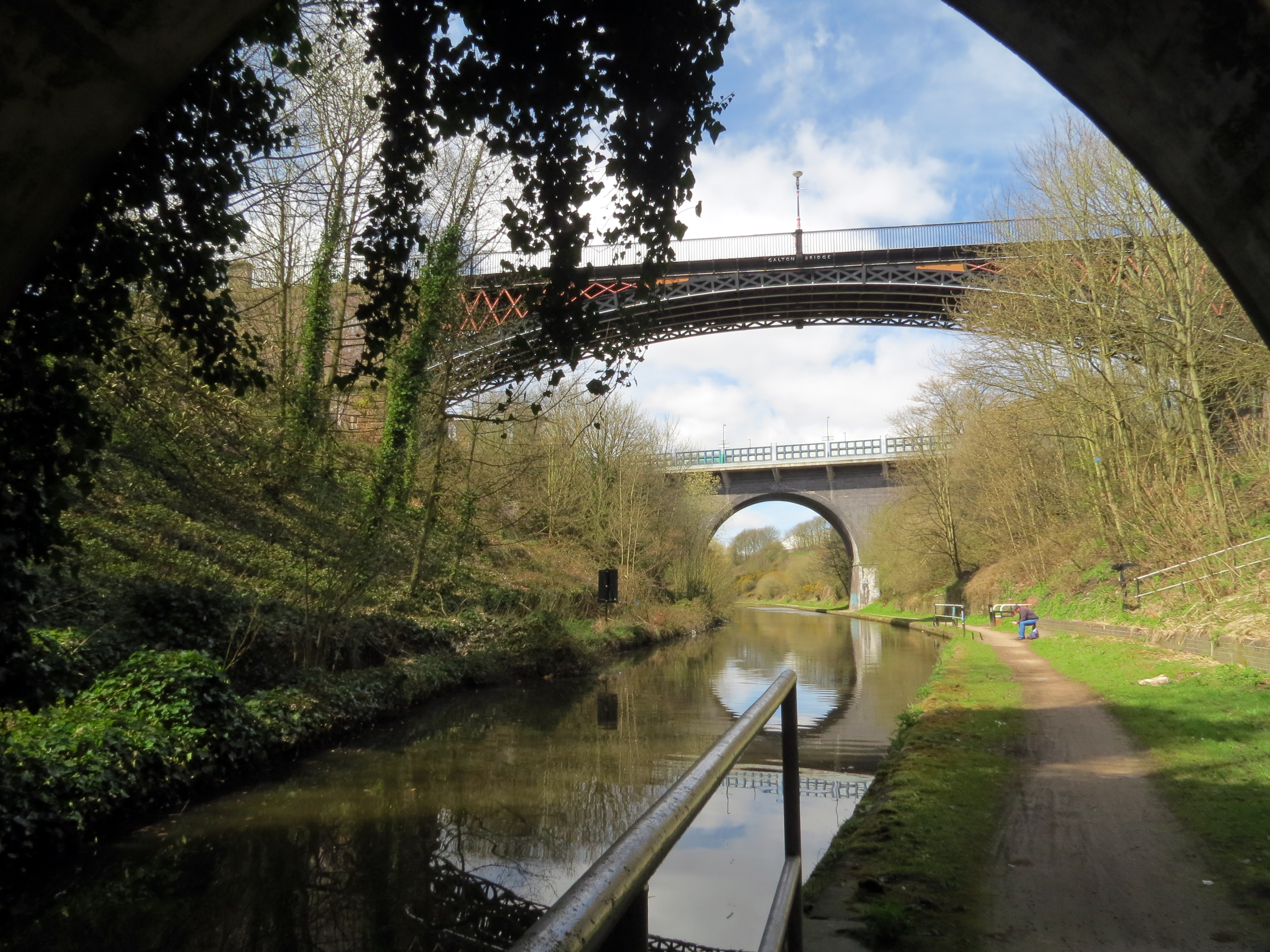 Galton Bridge, Smethwick, road and railway bridges, viewed from the canal tunnel.